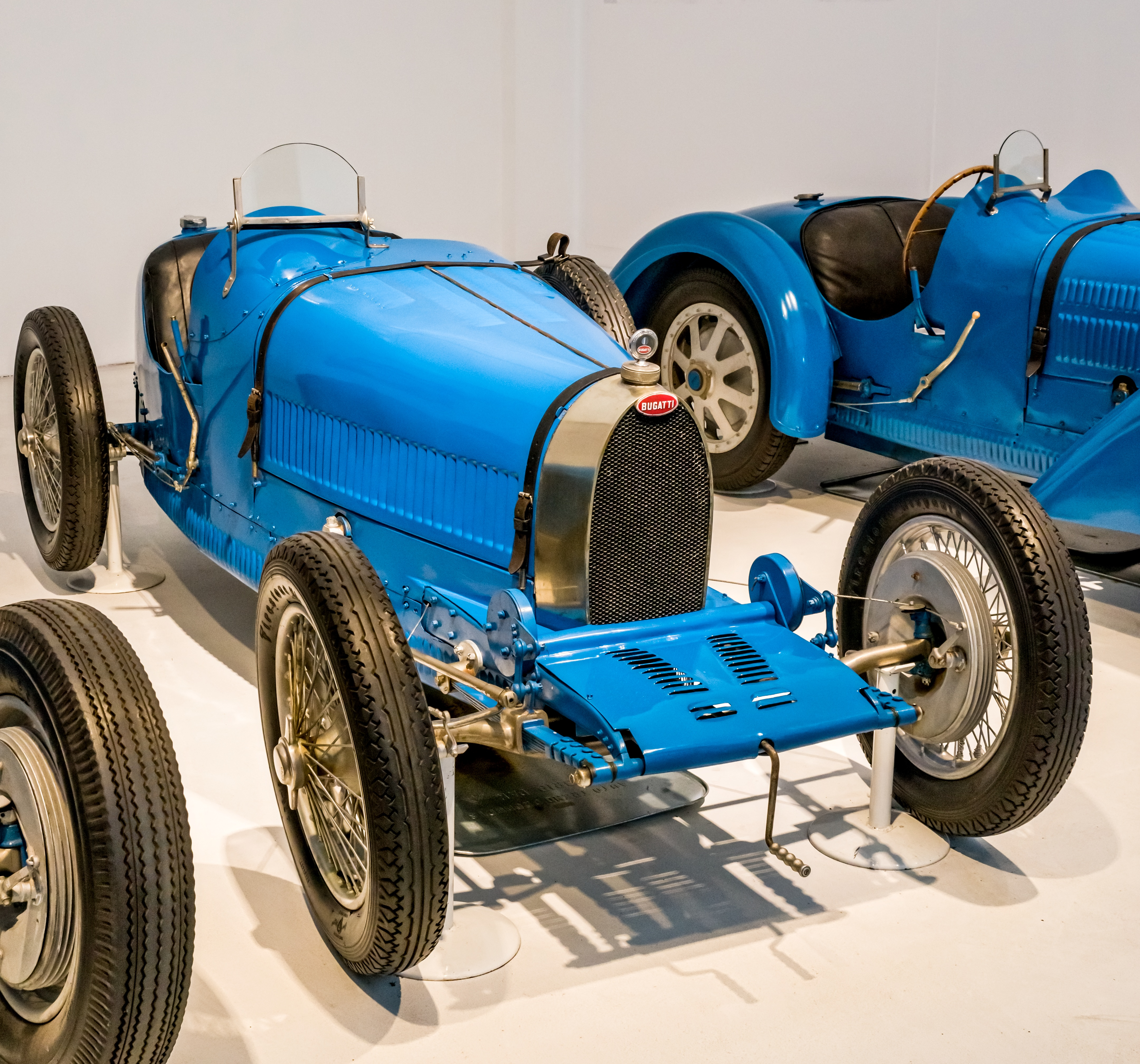 pictures from the Cité de l’Automobile – Musée National – Collection Schlump in Mulhouse, France ptictures from the 10. may 2018